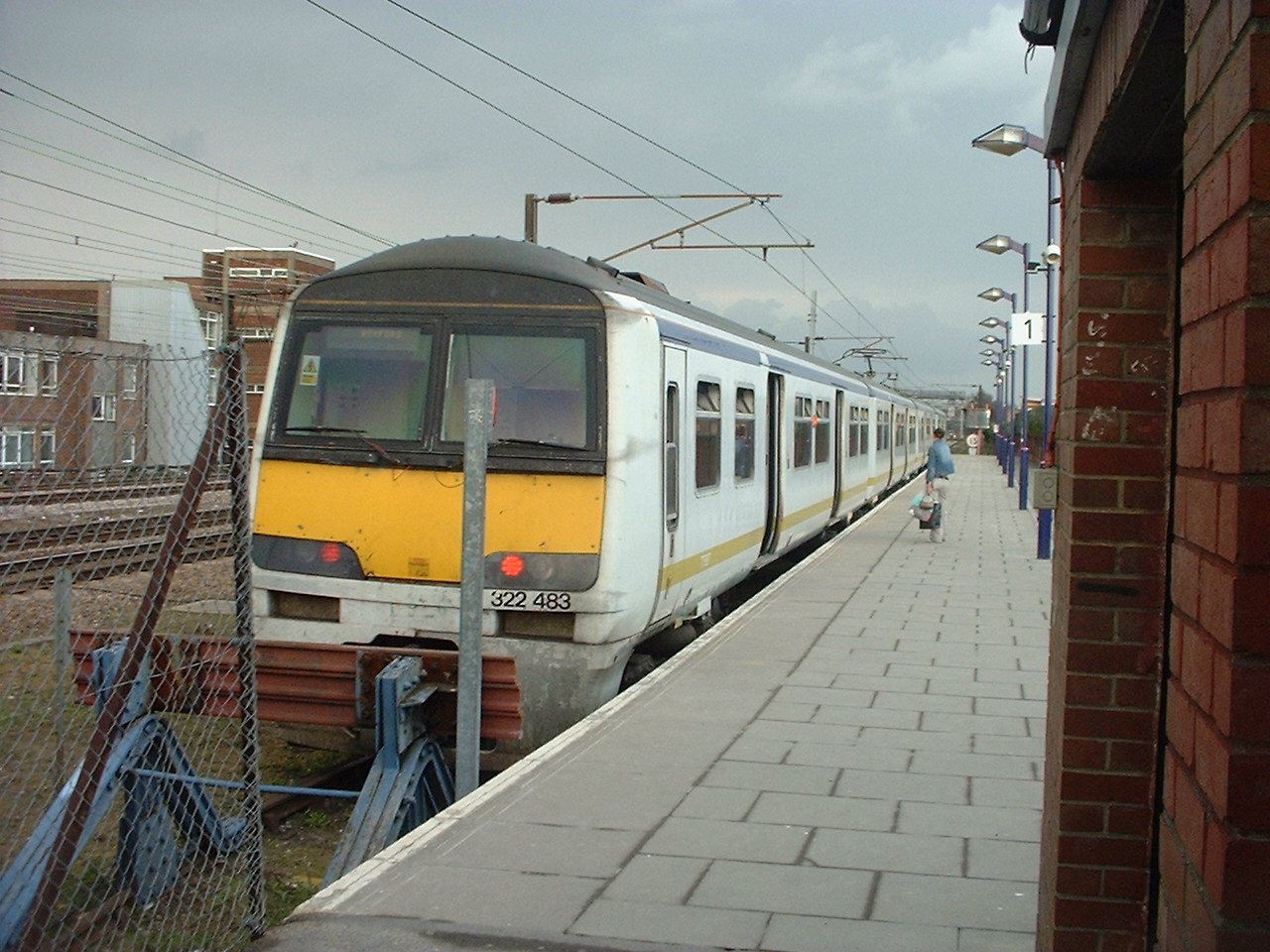 322483 waits at Romford with a service to Upminster.